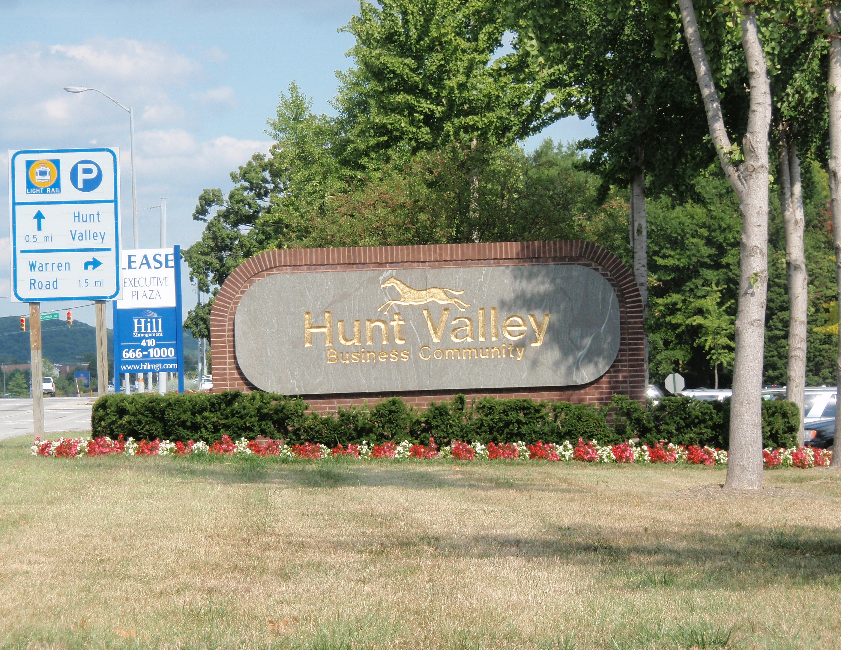 Welcome sign at the entrance to the Hunt Valley Business Community in Cockeysville-Hunt Valley.